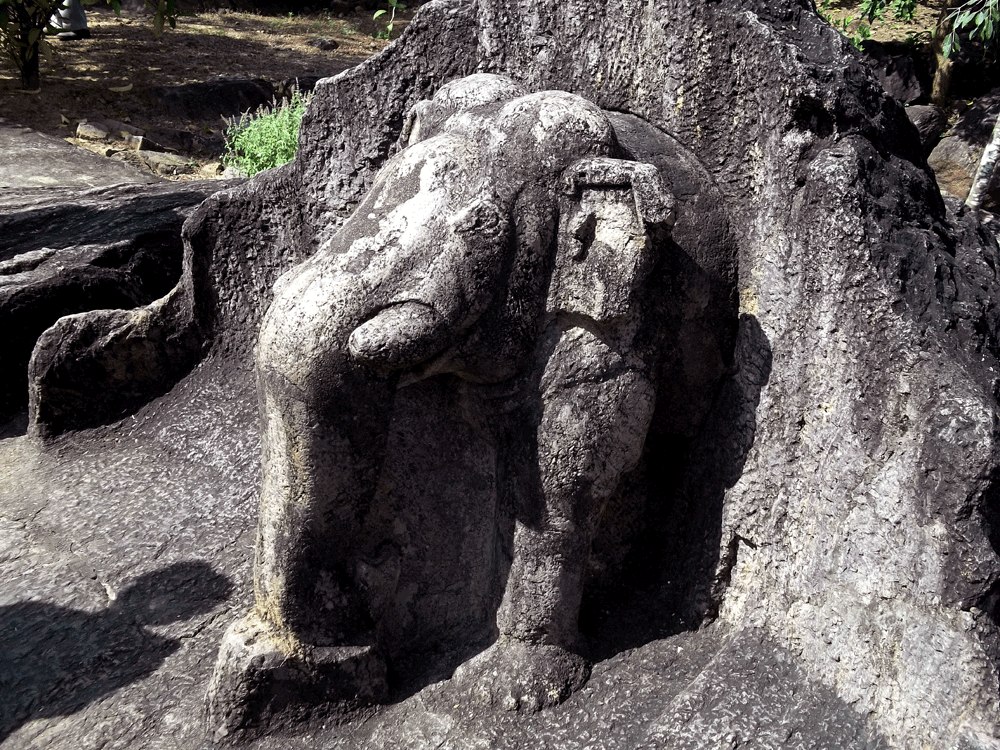 In the foothills of Dhauli, Bhubaneswar, India there is an inscription of Asoka. On the rock above the inscription, is the sculpted forefort of an elephant carved out of live rock which symbolizes buddha, 'the best of elephants' or (Gajotama) as in the form he was believed to have entered his mother's womb in dream.